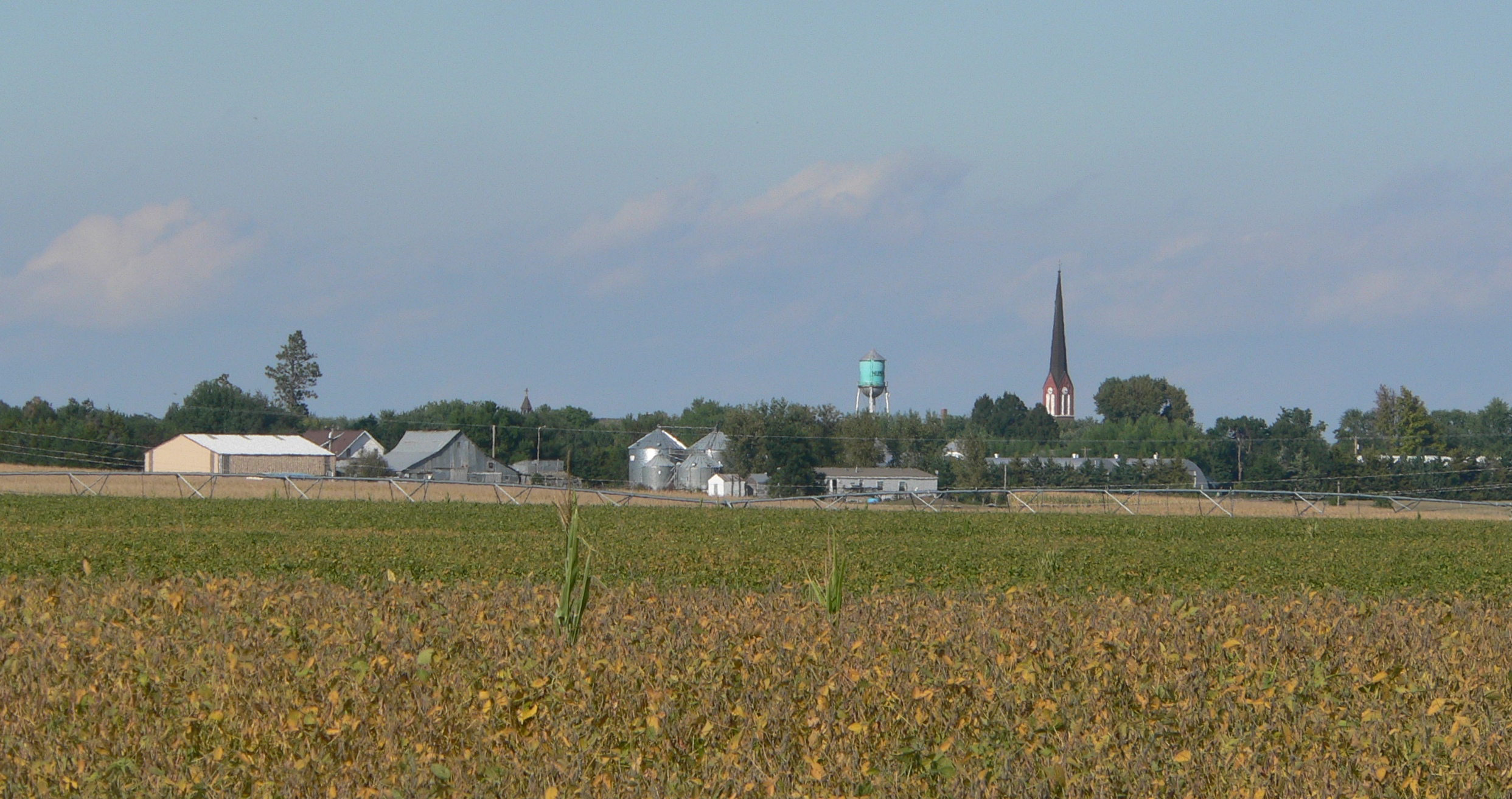 Humphrey, Nebraska, seen from the southwest. The steeple right of the water tower is St. Francis of Assisi Church.